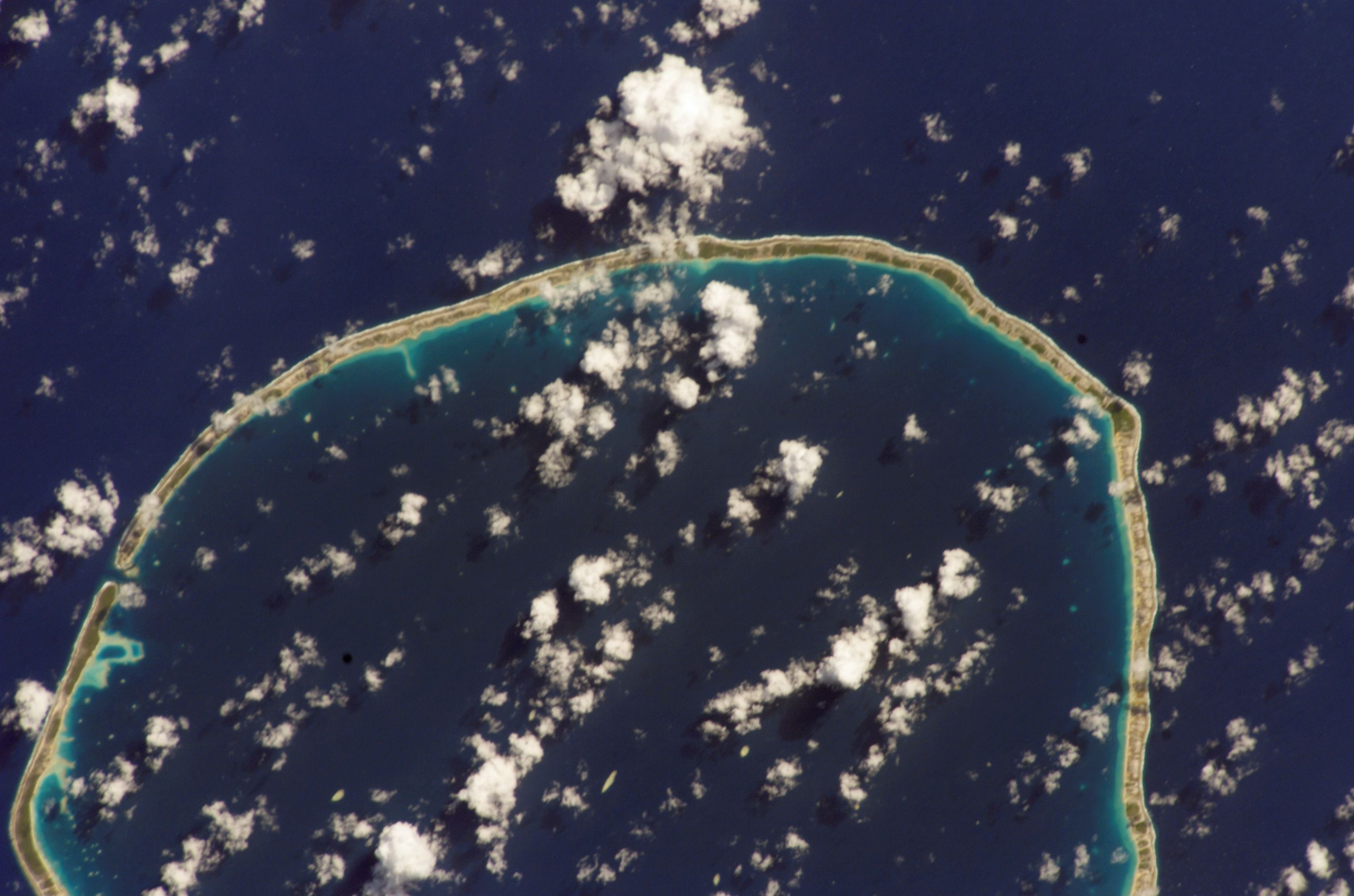 NASA astronaut image of northern part of Raraka Atoll (Tuamotu Archipelago, French Polynesia) in the Pacific Ocean